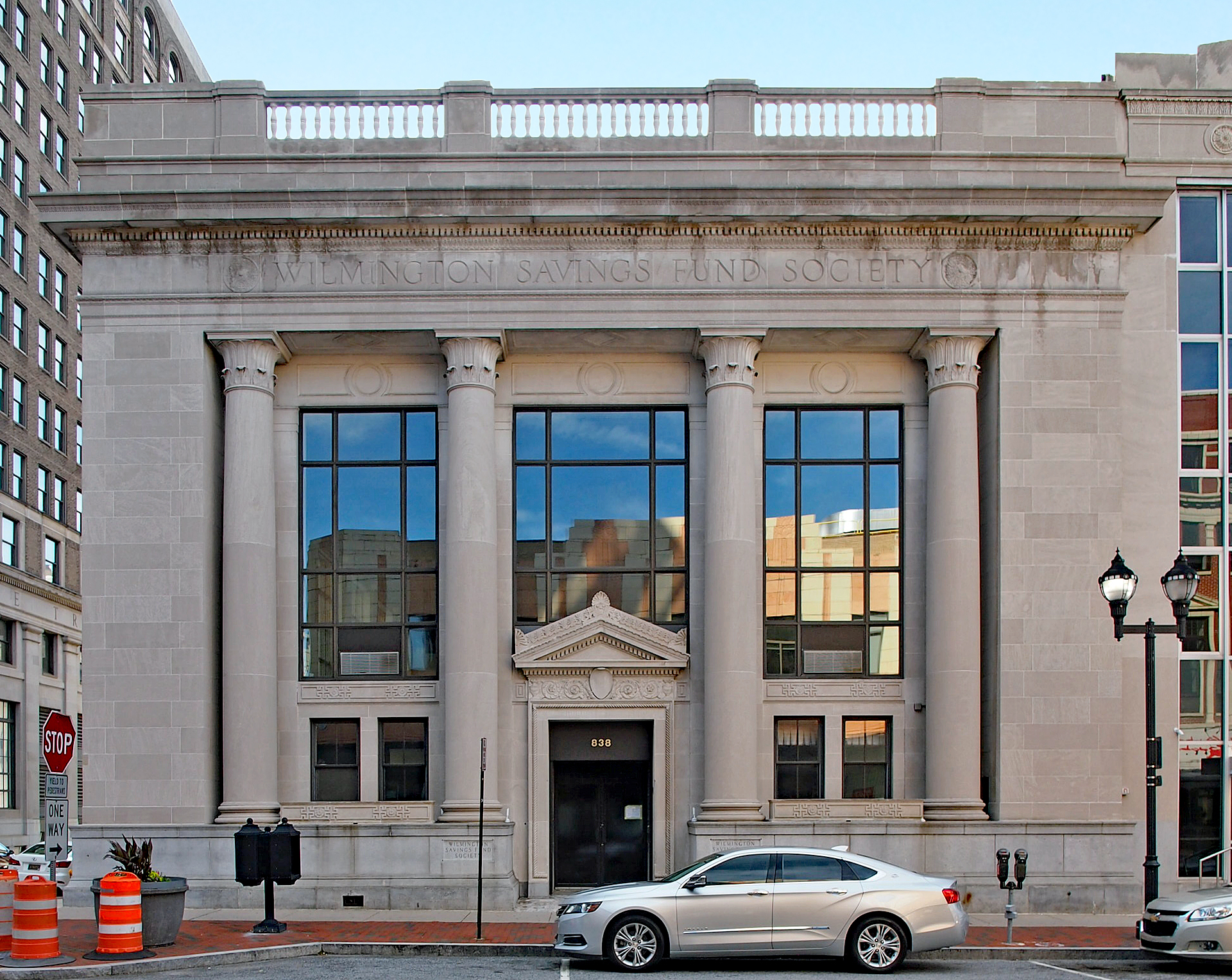 Wilmington Savings Fund Society Building, 838 N. Market St, Wilmington, Delaware, USA. Viewed from the northwest.